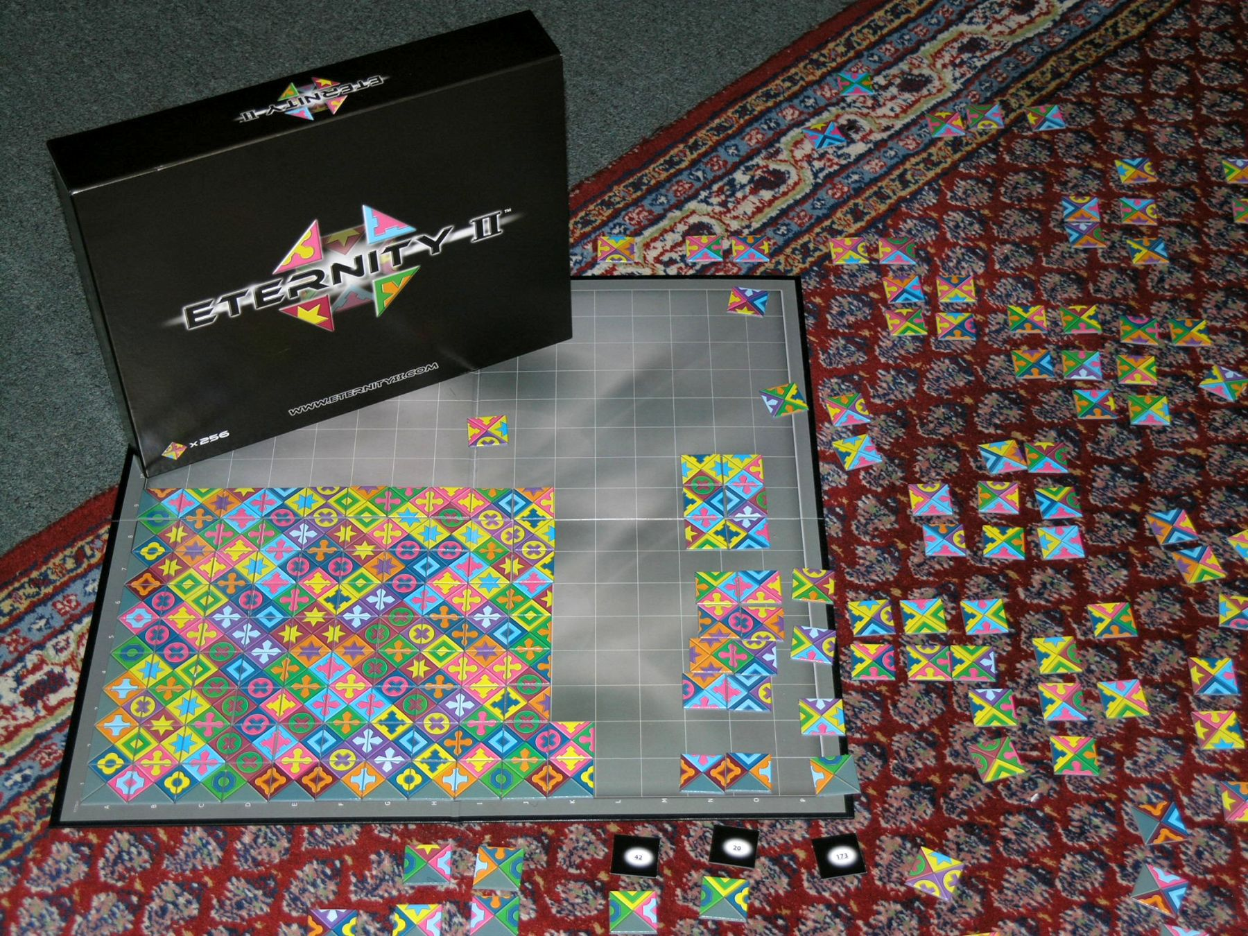 Eternity II